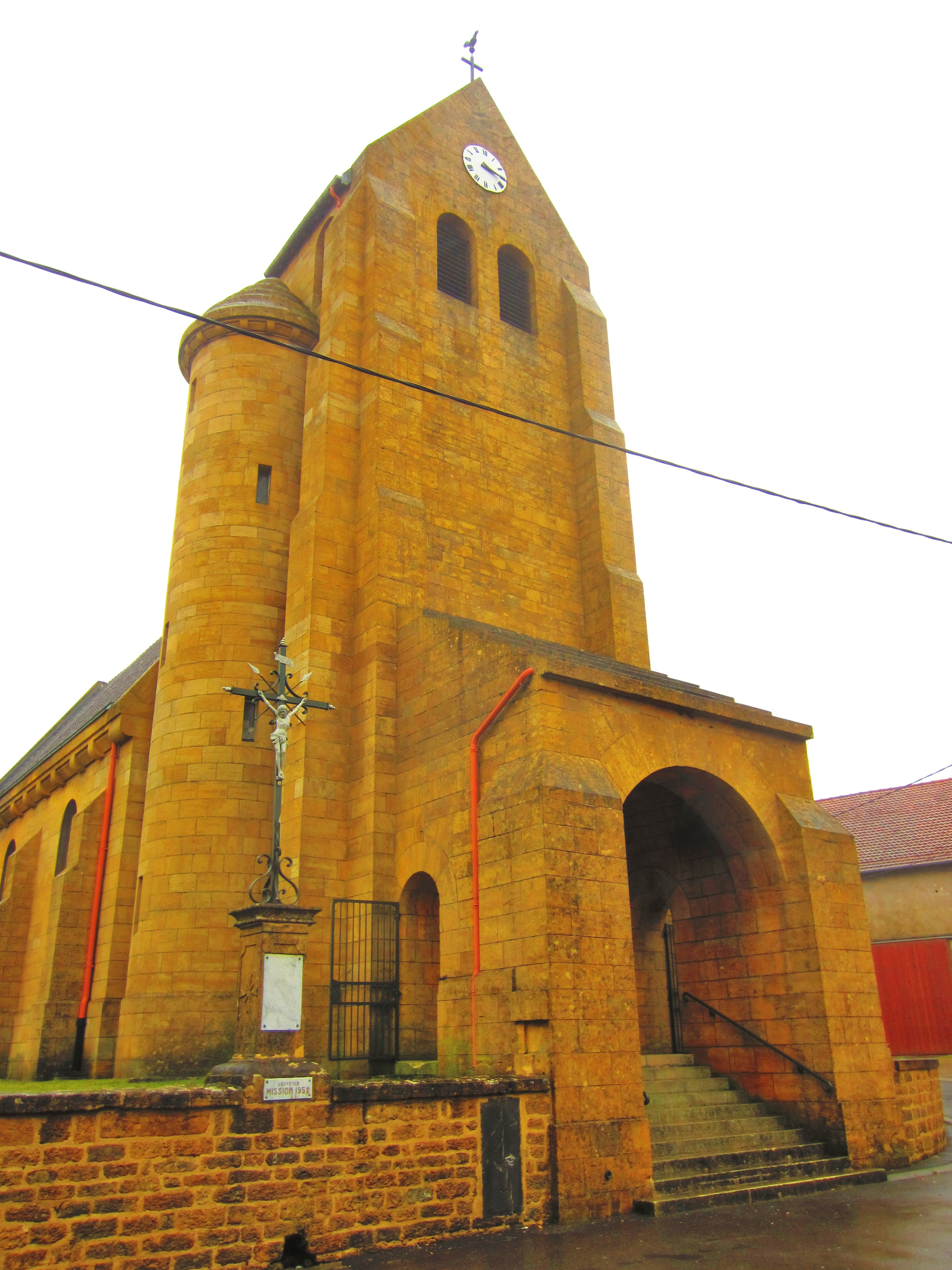 Cutry church